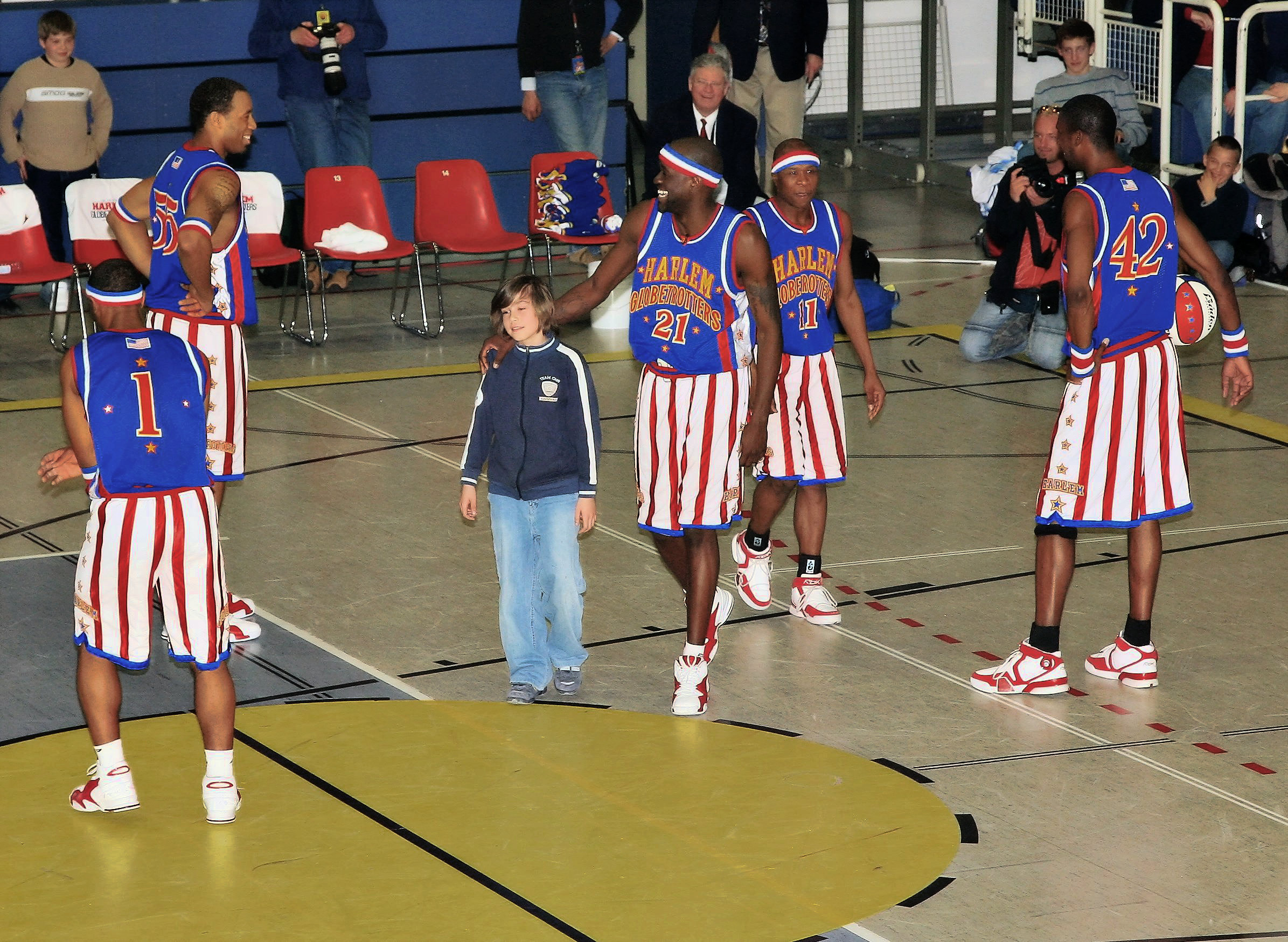 Harlem Globetrotters are playing with a spectator during a game